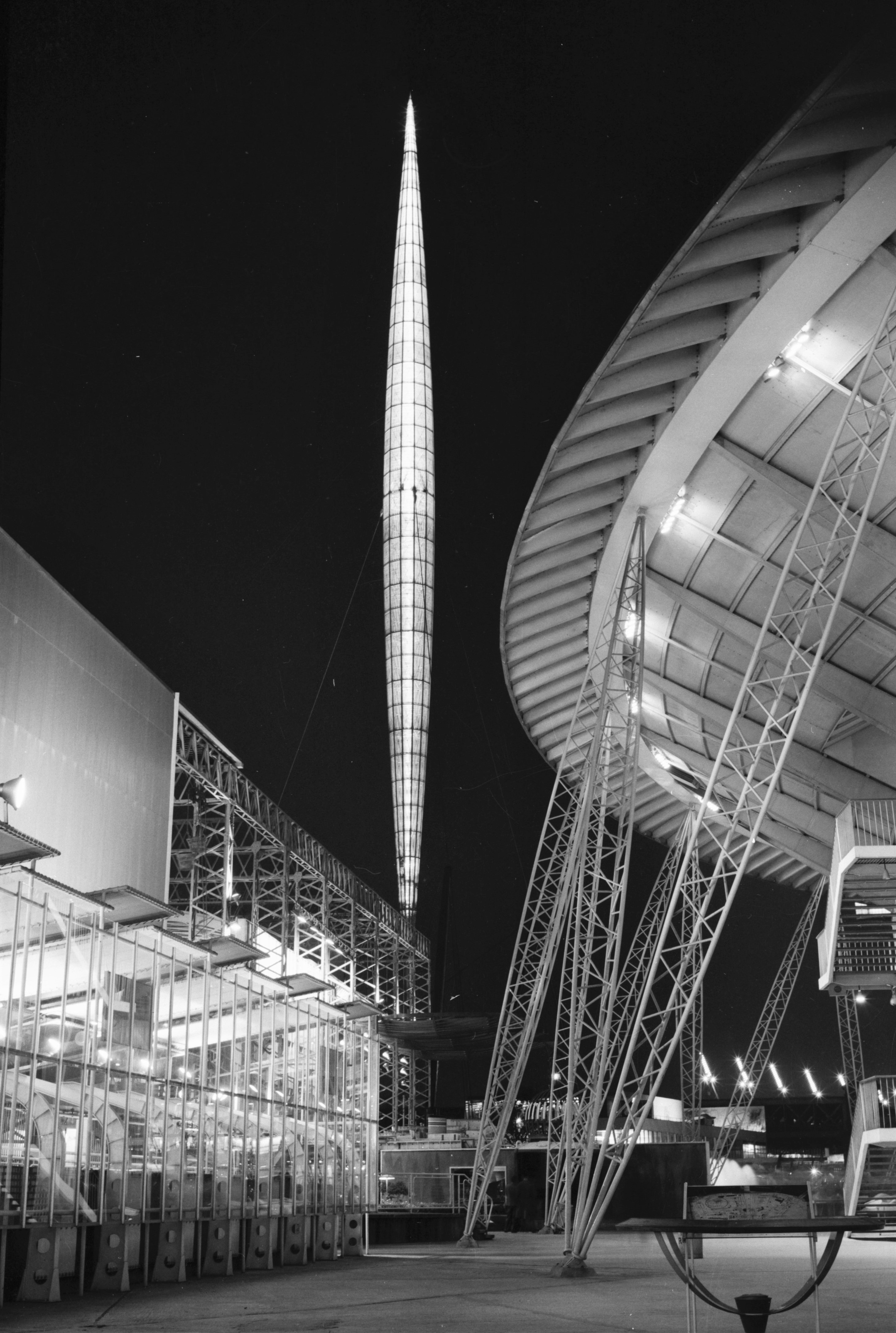 Night time view of the skylon